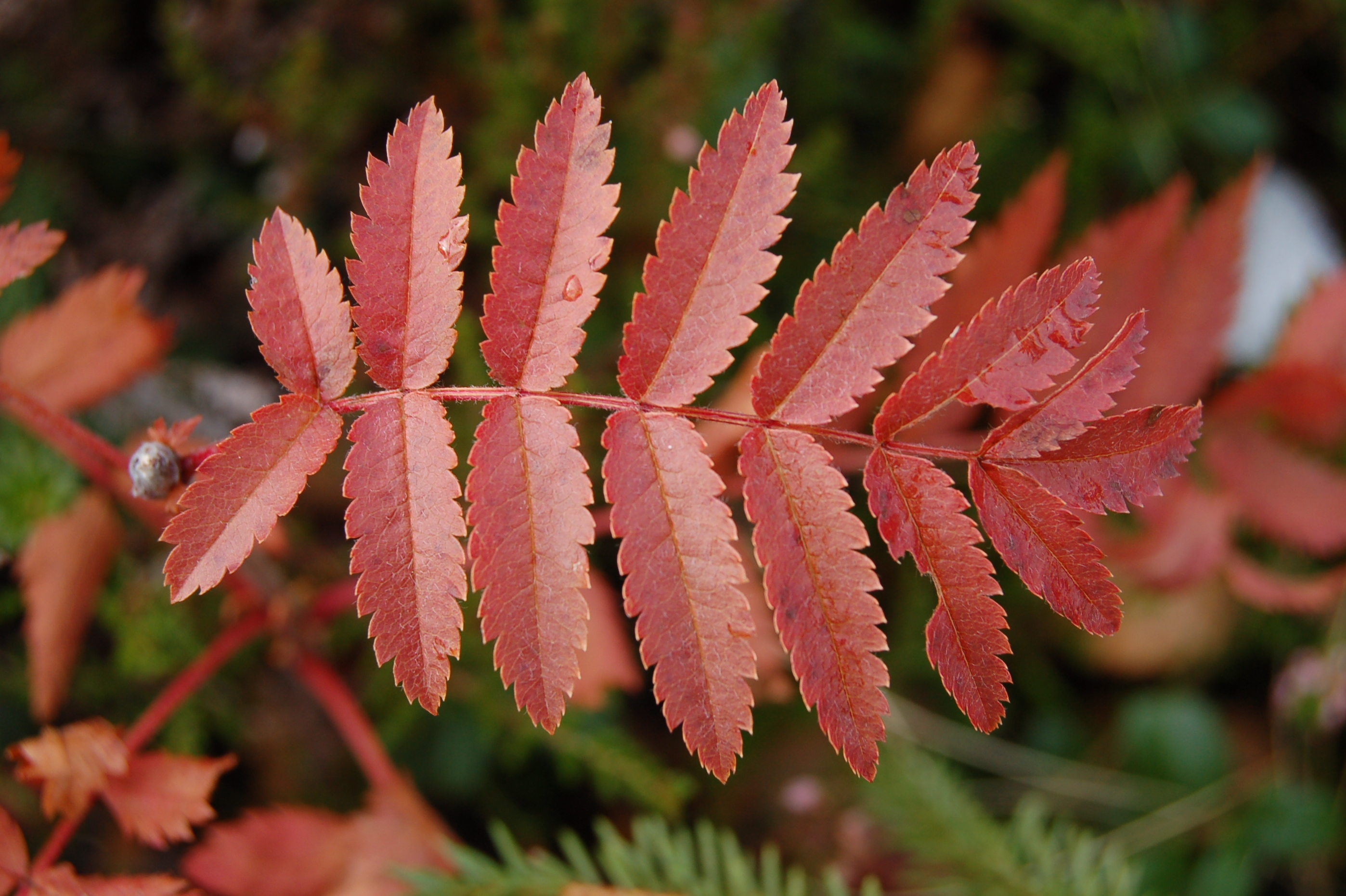 Rowan or European Rowan typical autumn colour - Sorbus aucuparia